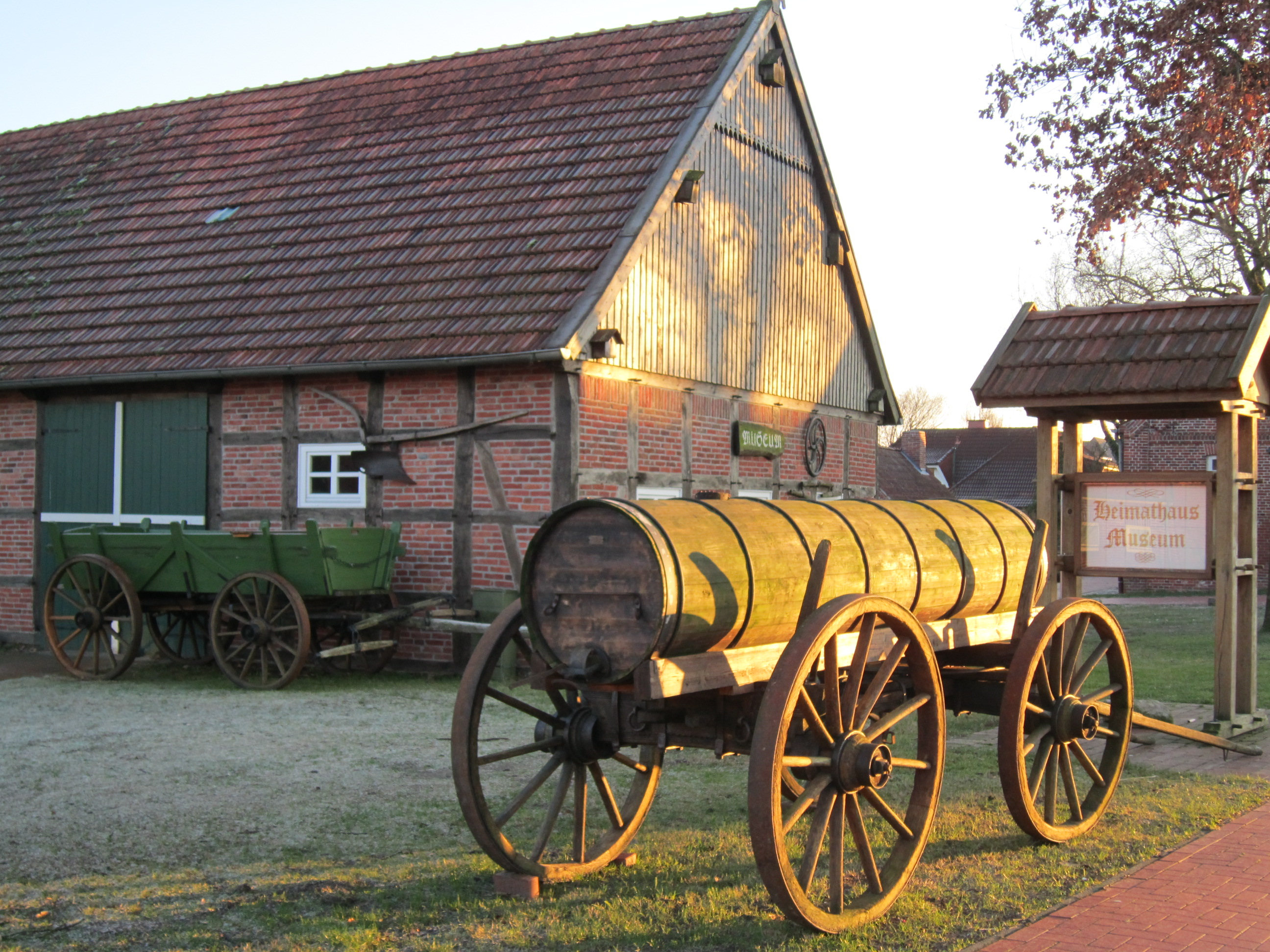 Museum park "Am Pallert" in Boesel (Landkreis Cloppenburg, Lower Saxony)